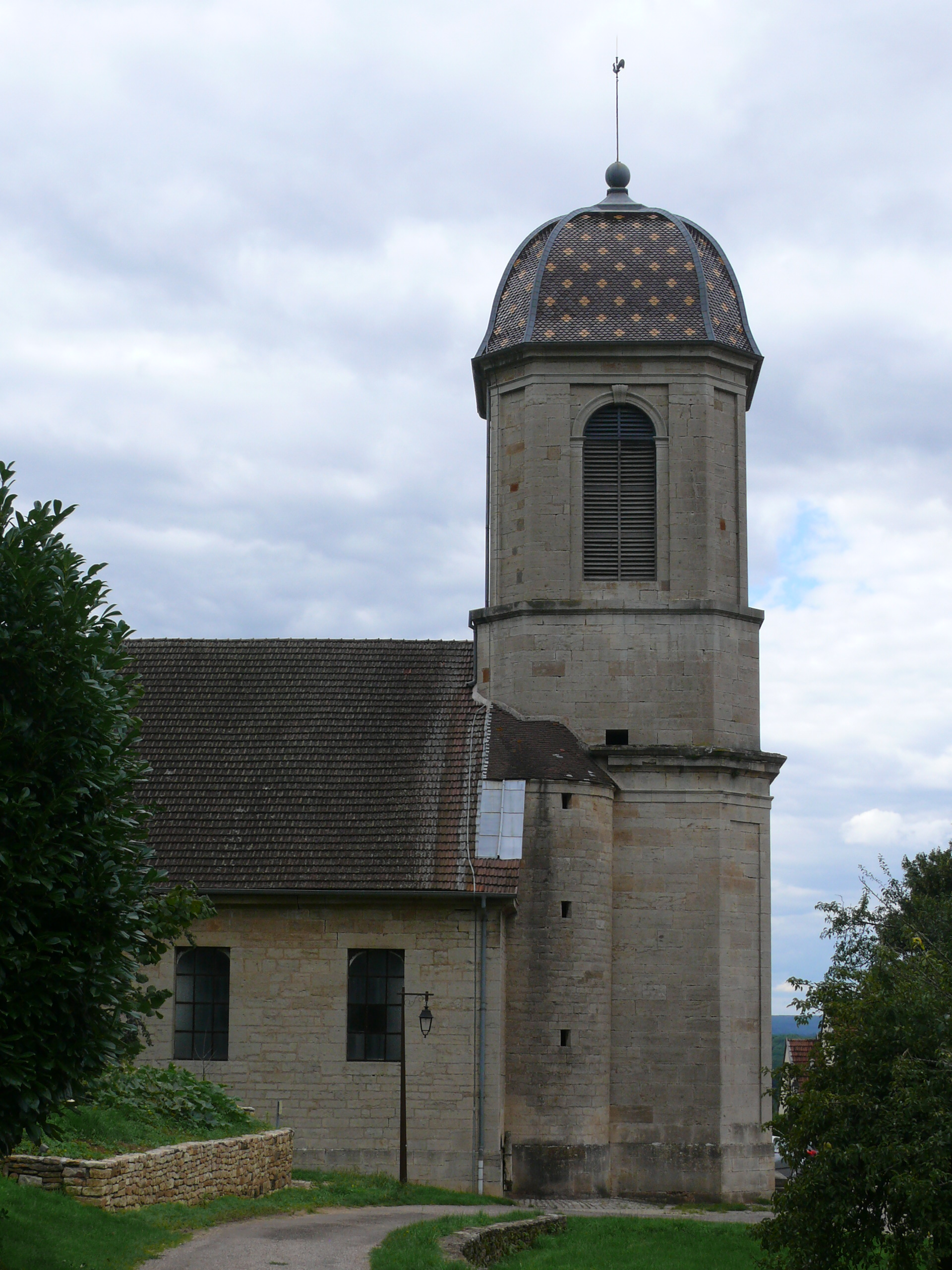 Church of Chariez (Haute-Saône, France) (1780s)